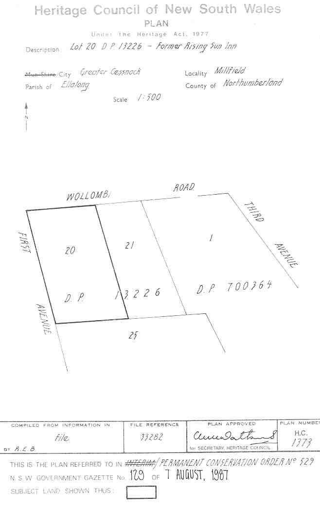 Rising Sun Inn, Millfield: PCO Plan Number 529